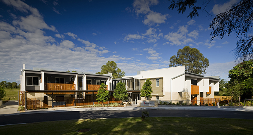 Youngcare Apartments Sinnamon Park